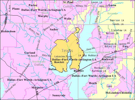 U.S. Census 2000 reference map for Rowlett